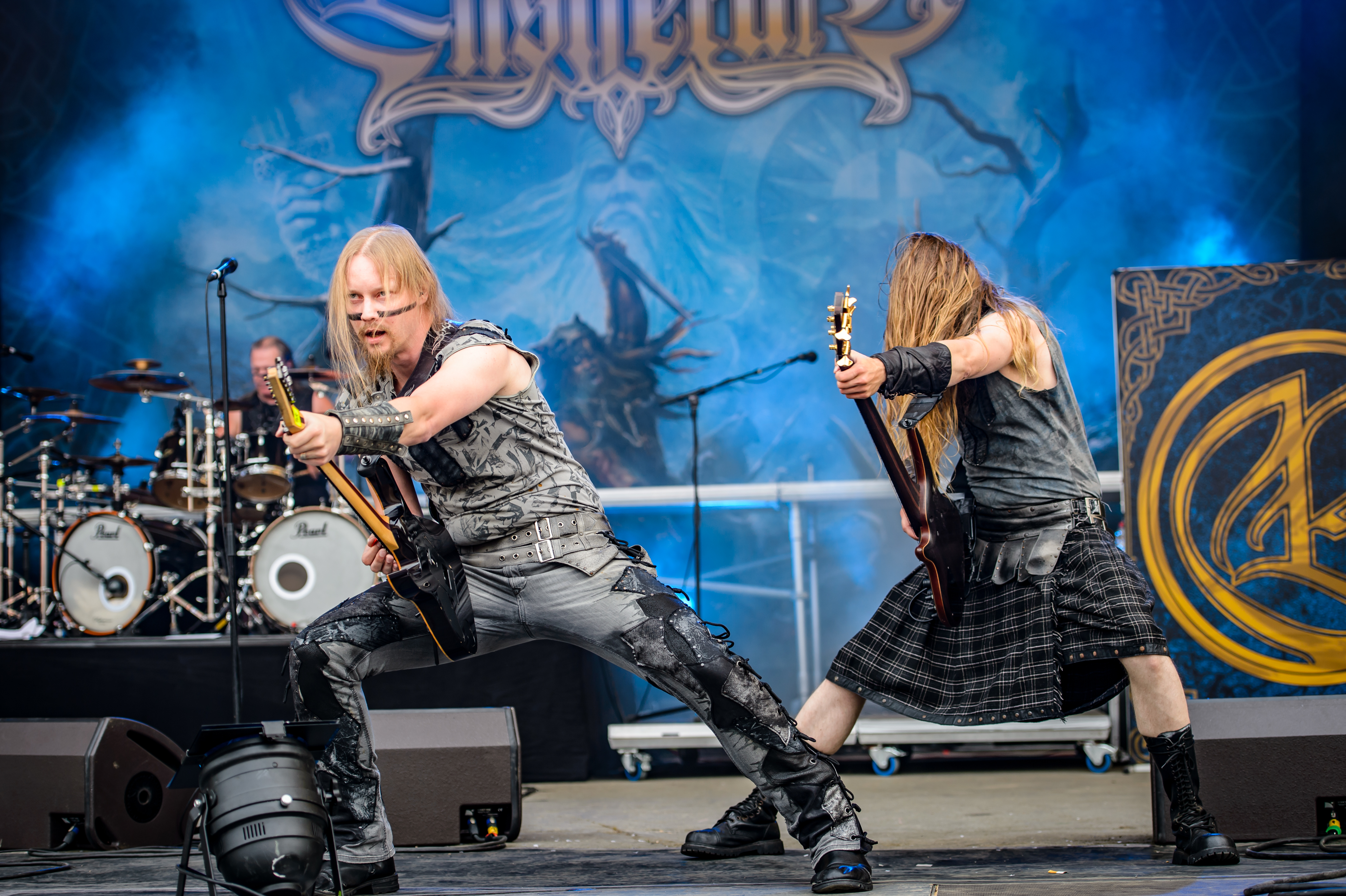 Ensiferum; RockFels 2016 - Loreley